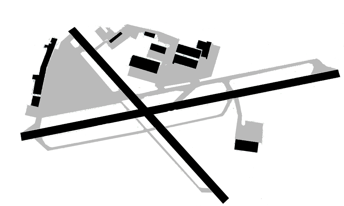 Taxiways at Buttonville airport in Markham, Ontario, Canada